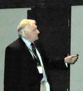 Richard Bader, Canadian theoretical chemist